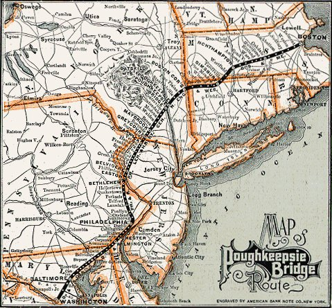 An map of the Poughkeepsie Bridge Route, circa 1892.